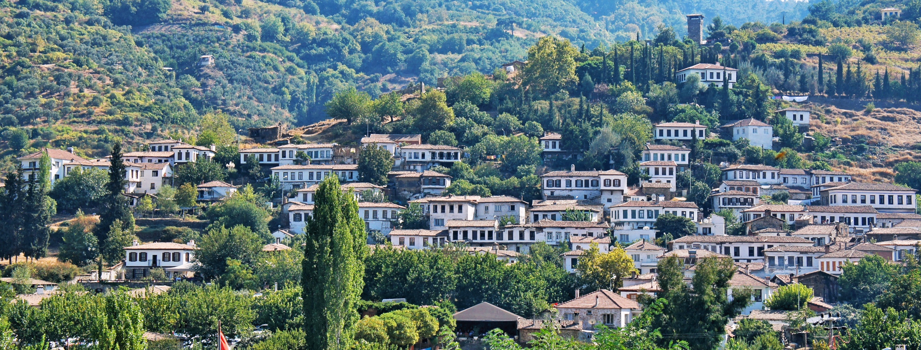 Overview Photo of Sirince, İzmir